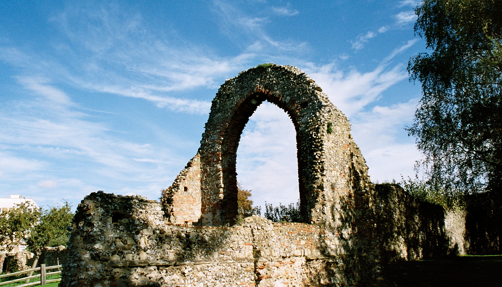 Part of St Augustine's Abbey, Canterbury, Kent